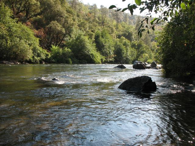 The Mokelumne River — in the central Sierra Nevada foothills of California. The location of the photograph is near Electra Road, north of State Route 49 on Bureau of Land Management land, on the Amador County side of the river — facing the Calaveras County side of the river bank.